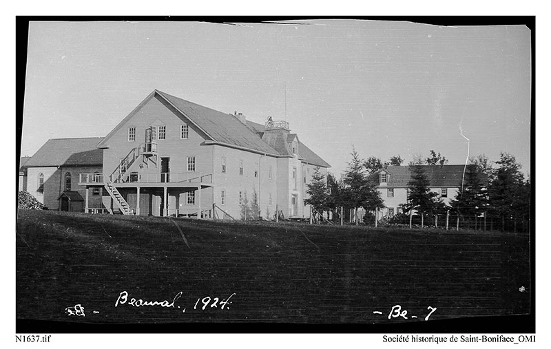 Exterior view of the Beauval Residential School and surrounding buildings. This school burned down September 20 1927.